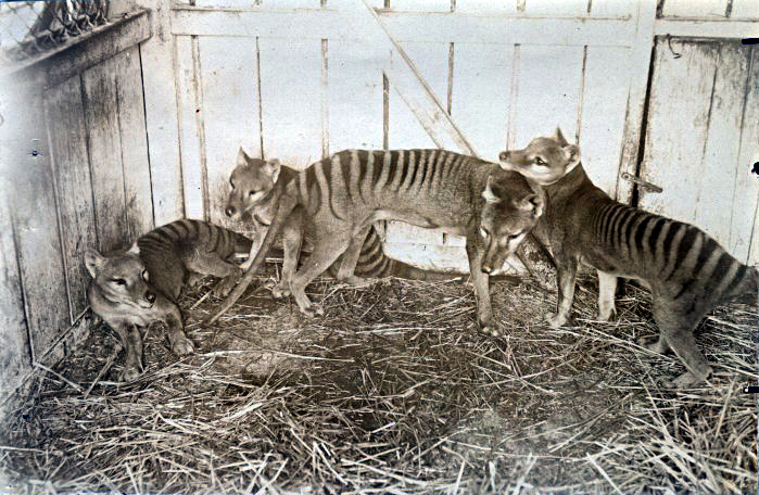 Thylacines at the Beaumaris Zoo in Hobart, 1910.